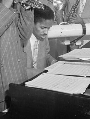 Portrait of John Lewis